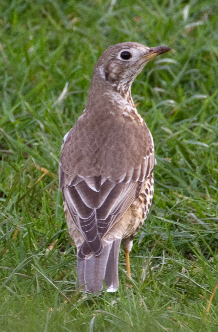 Thrush